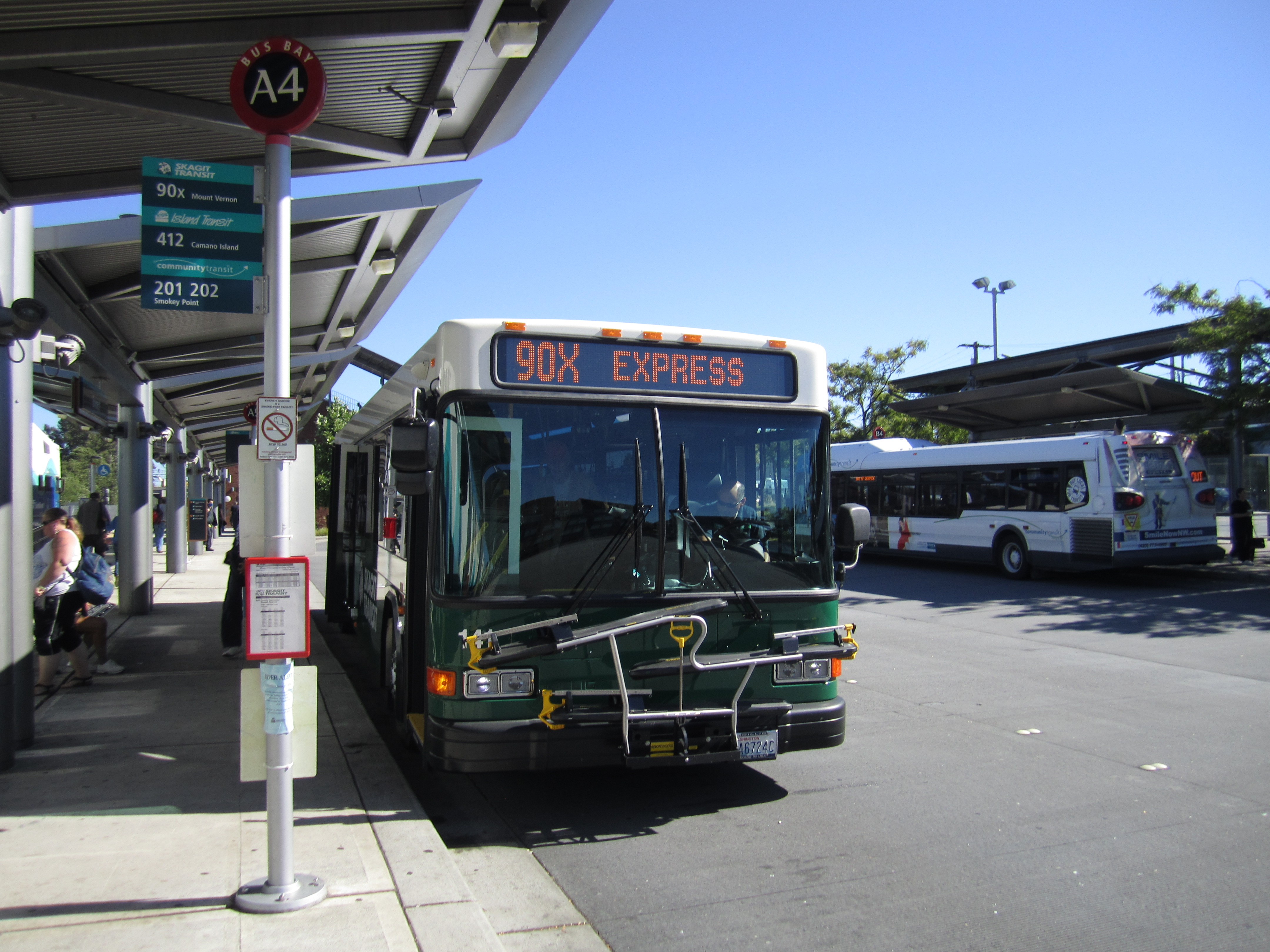 Skagit Transit #141, a Gillig Low Floor bus, on Route 90X at Everett Station.